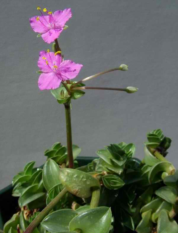 Tradescantia (Callisia) navicularis (collection de Khanon - 2003)